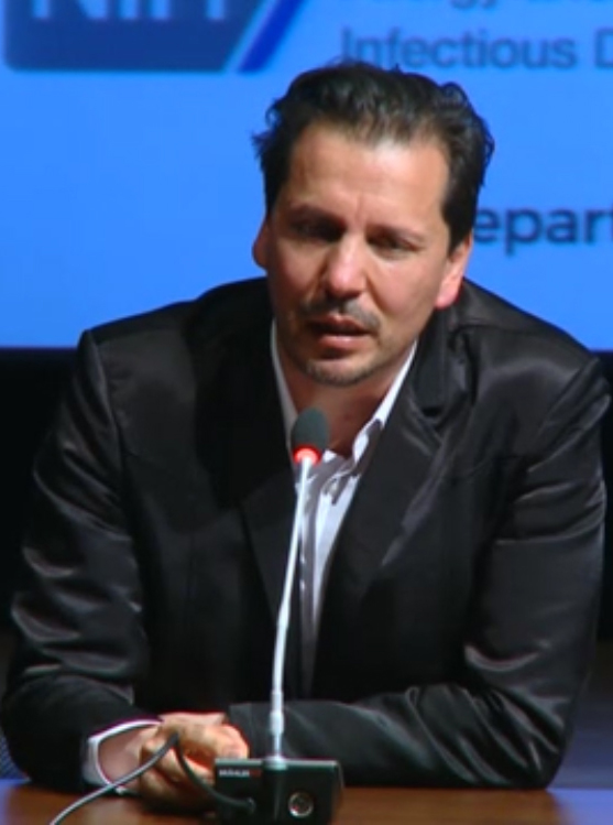 This is a photo of Dr. Maverakis speaking at the National Institutes of Health at about autoimmunity Cancer